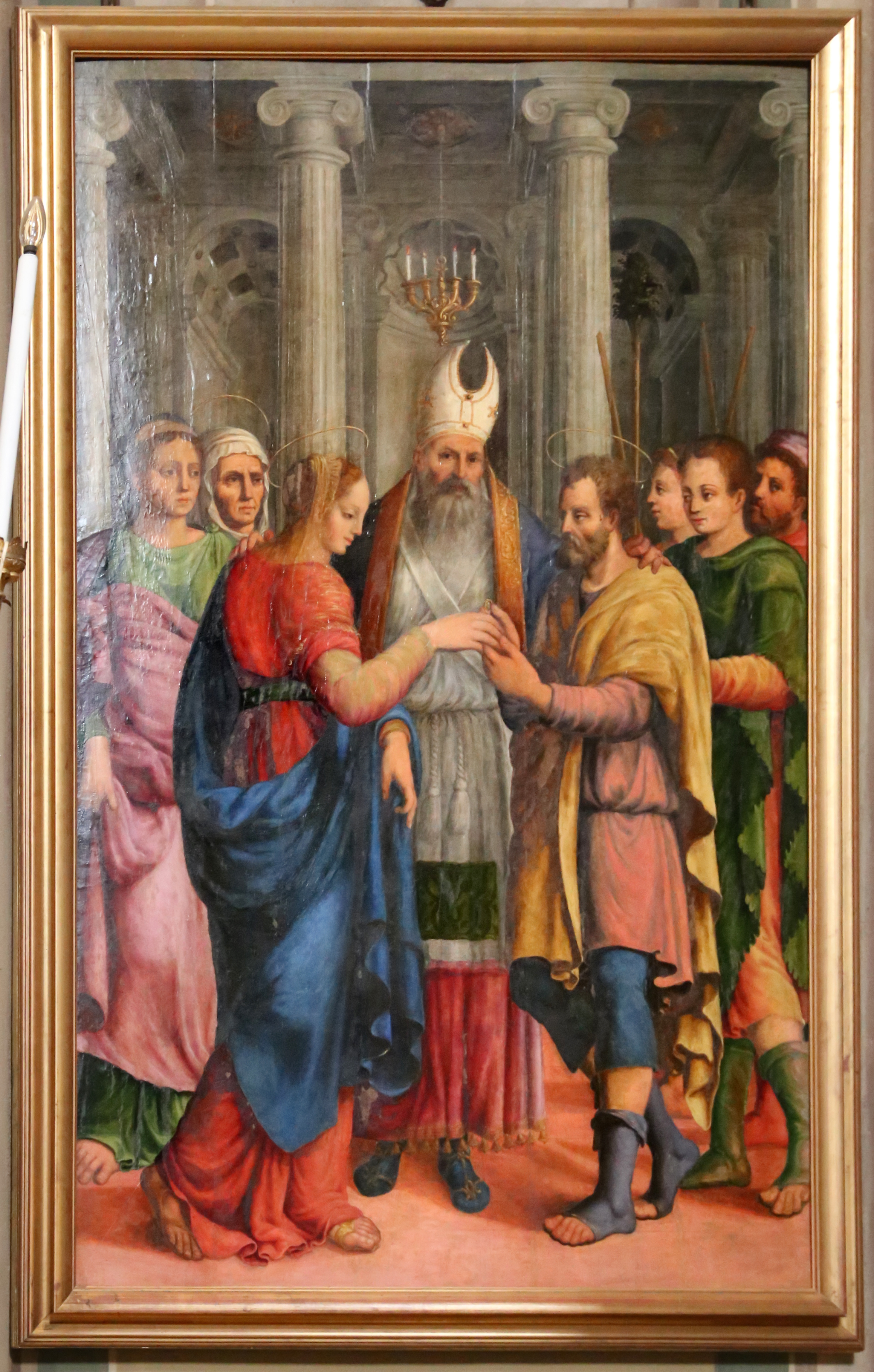 Cathedral (Ferrara) - Interior